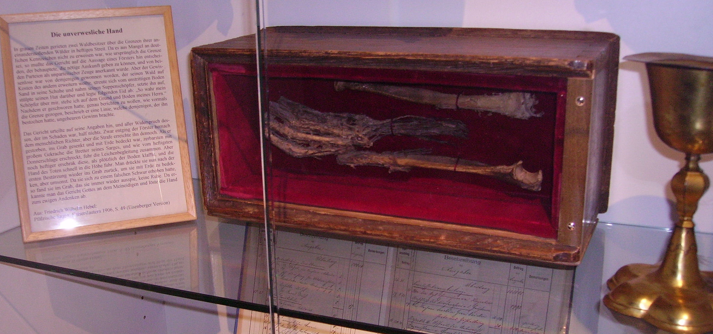 rotten hand in Eisenberg, Germany